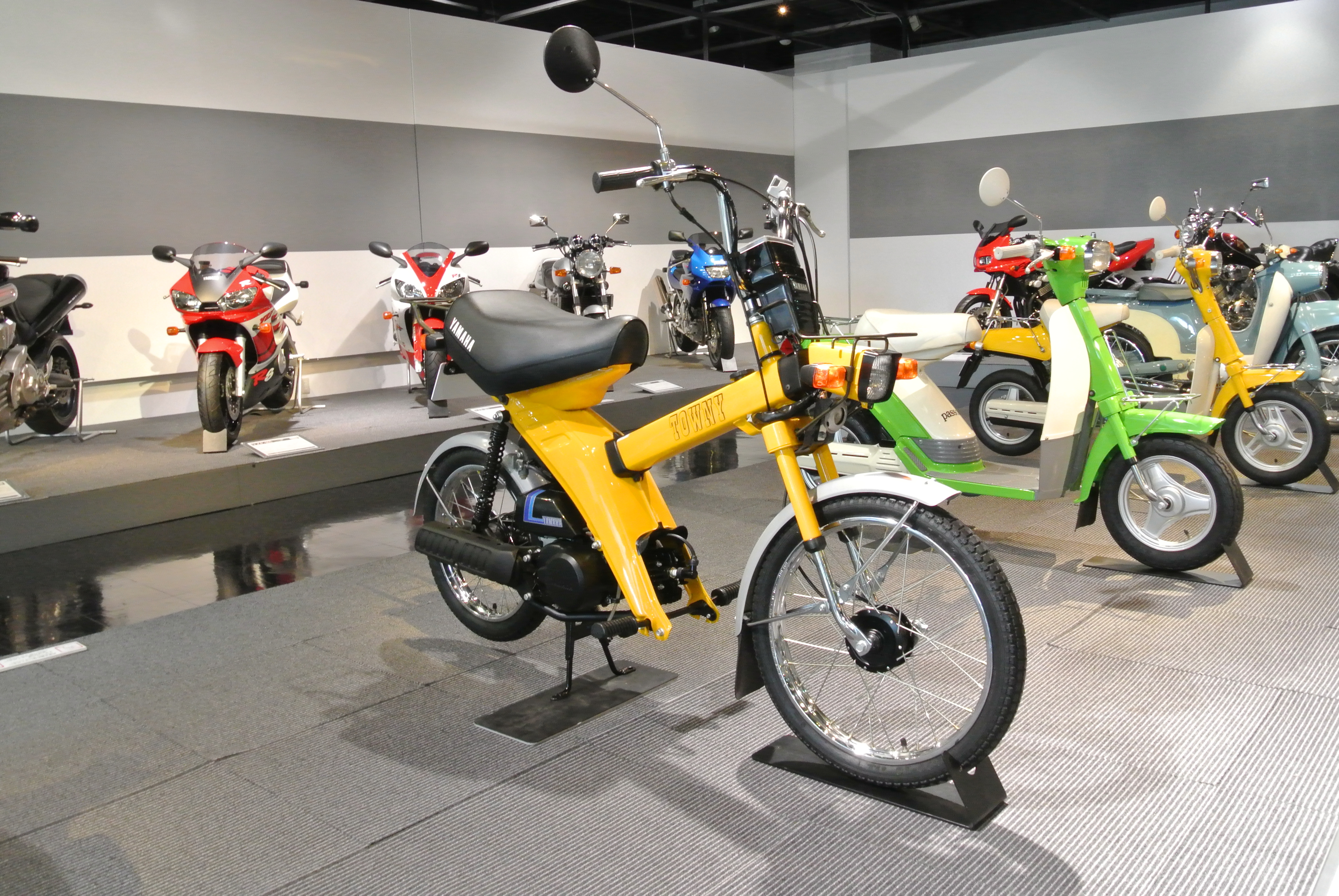 1980 Yamaha Scooter Towny (MJ50) in the Yamaha Communication Plaza.